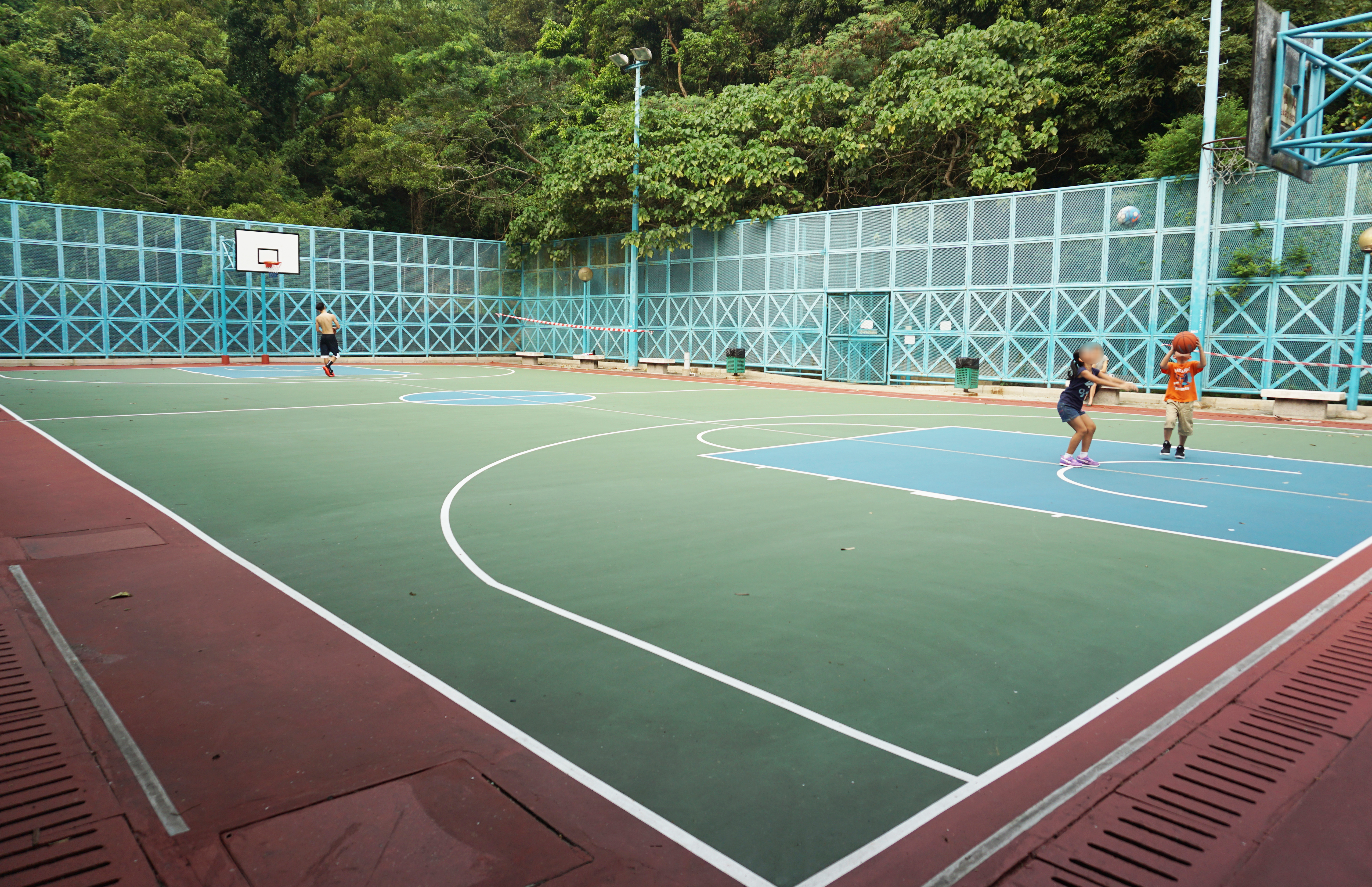 Tin Wan Estate in Tin Wan, Hong Kong.